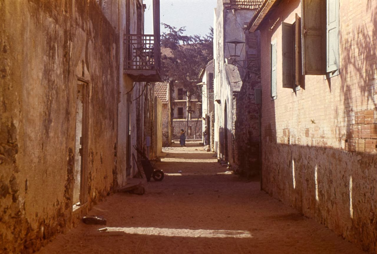 Street in Goree